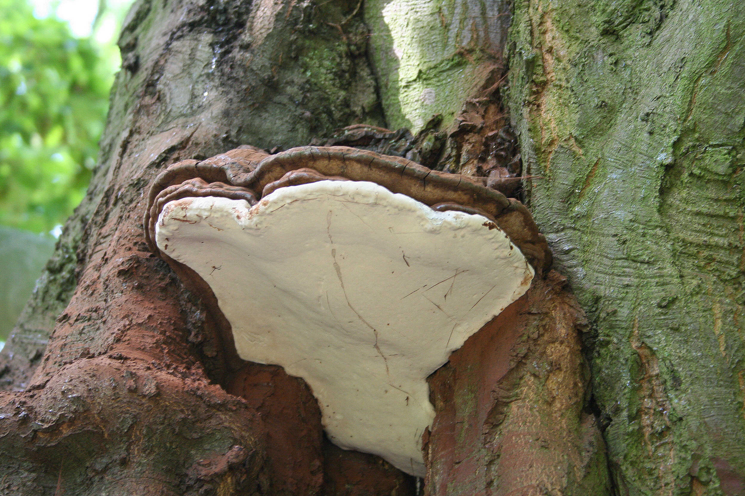 Artist's fungus, Morlanwelz-Mariemont, Belgium